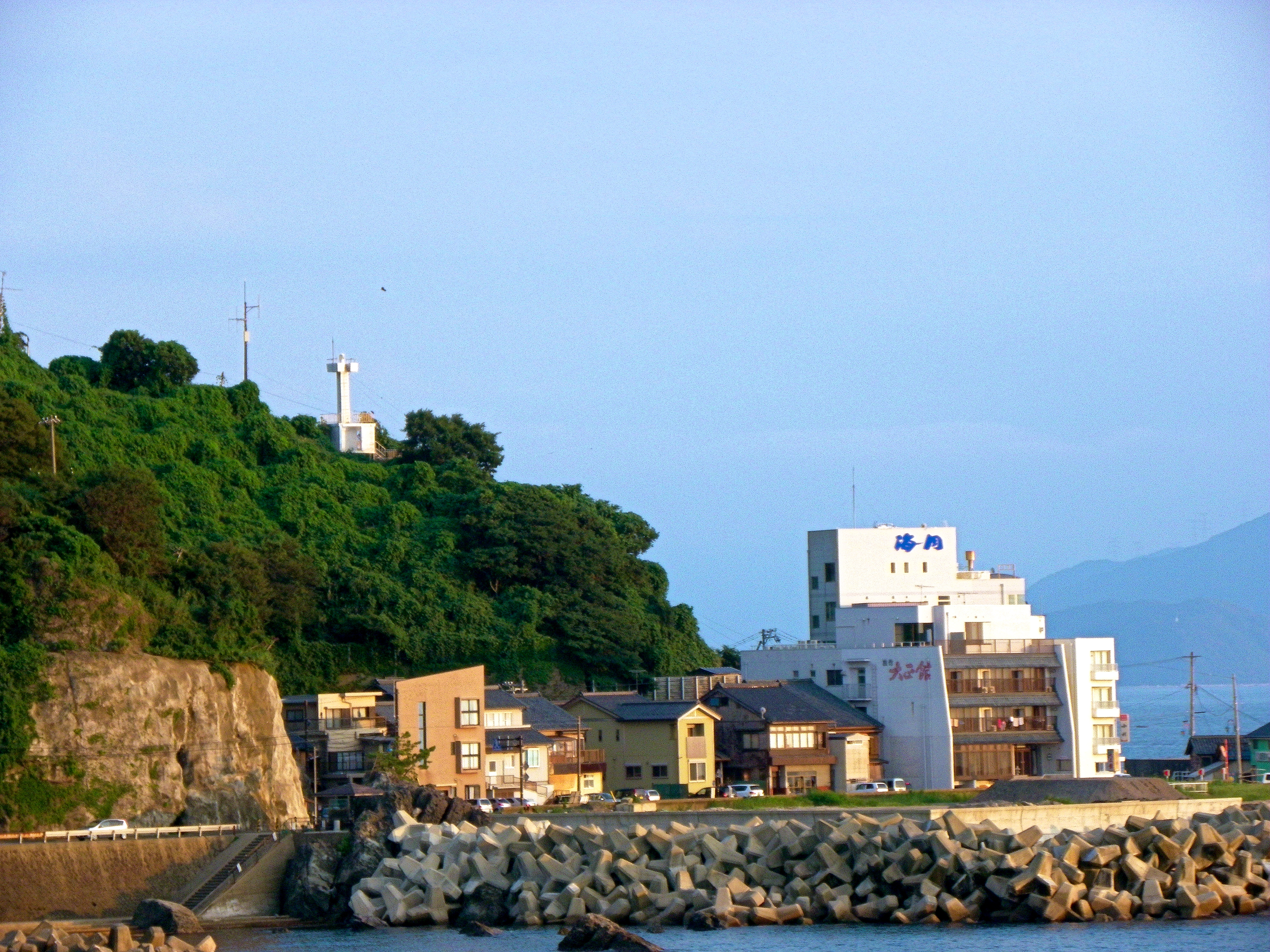 kareisaki lighthouse long